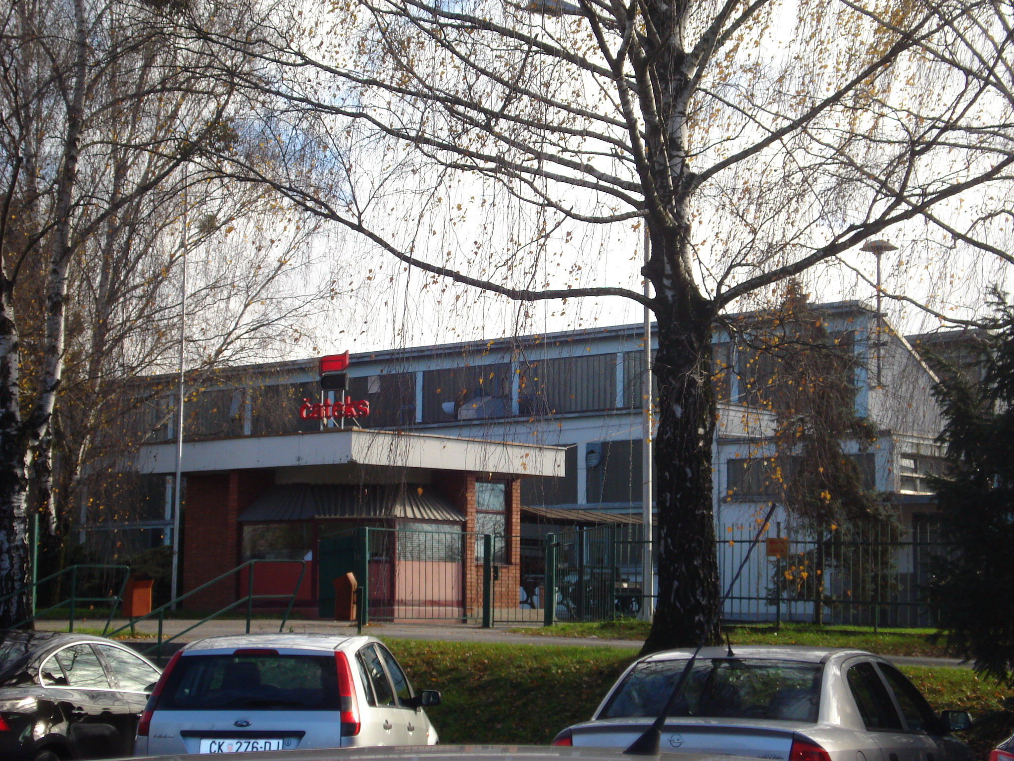 Čateks, woven textile mill in Čakovec, Croatia - entrance